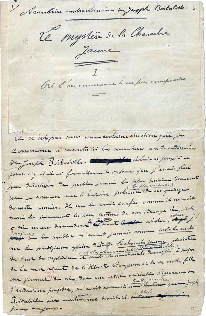 First page of the manuscript.